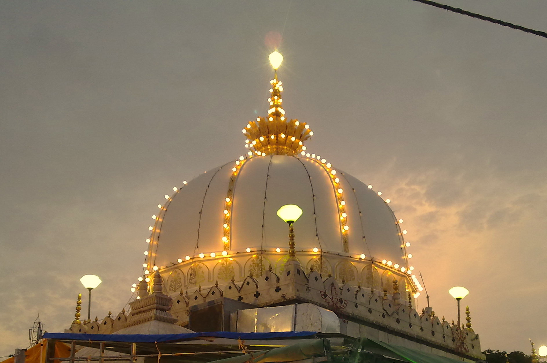 dargah of khwaja moinuddin chishti at ajmeri sharef